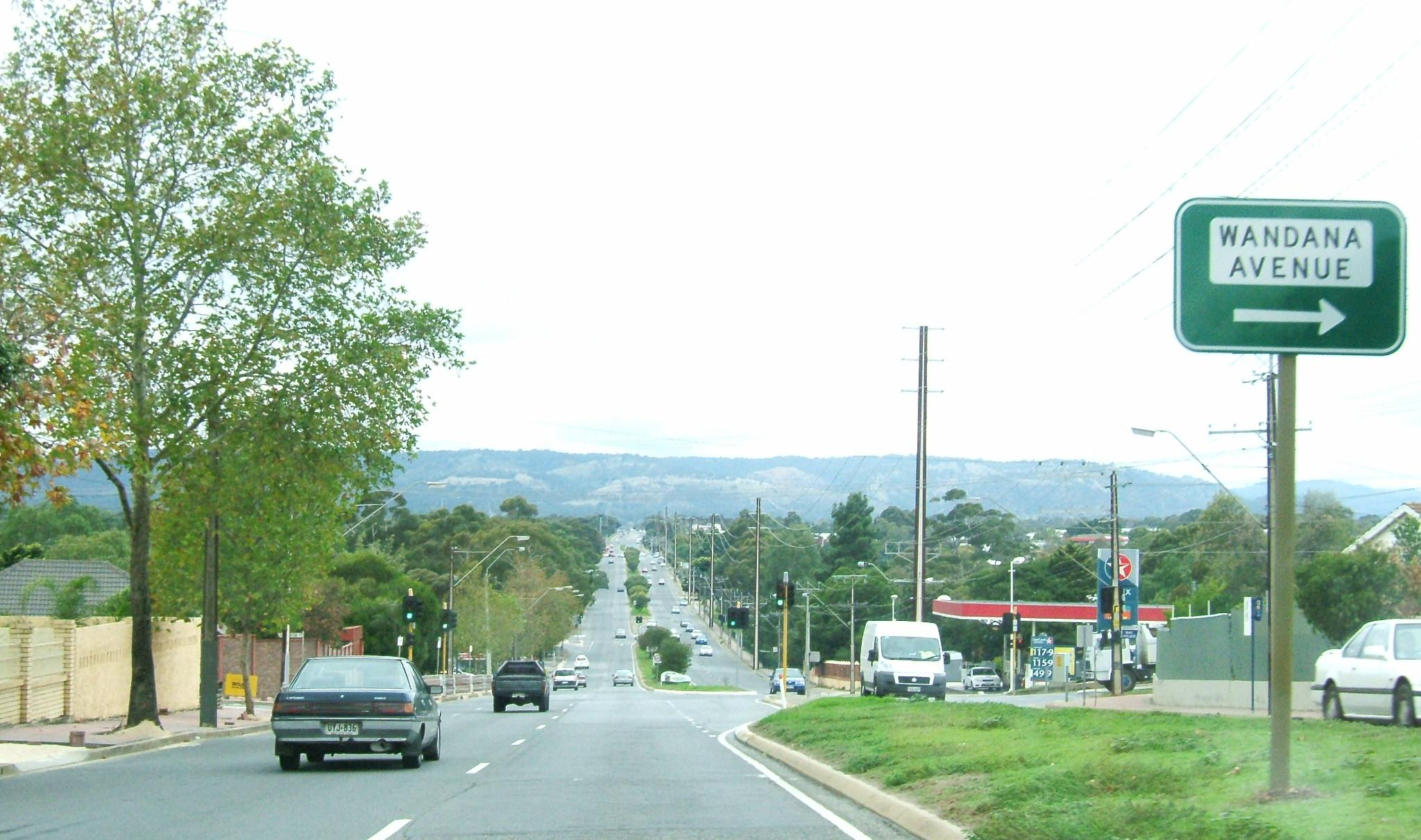 Grand Junction Rd passing through Gilles Plains